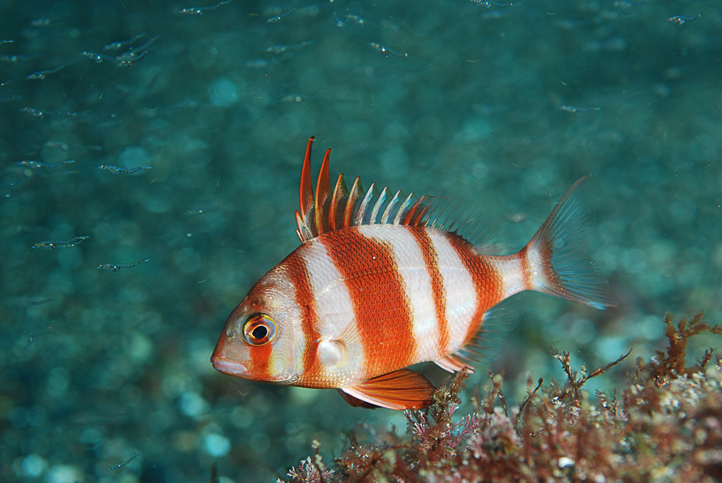 Juvenile Pagrus auriga.